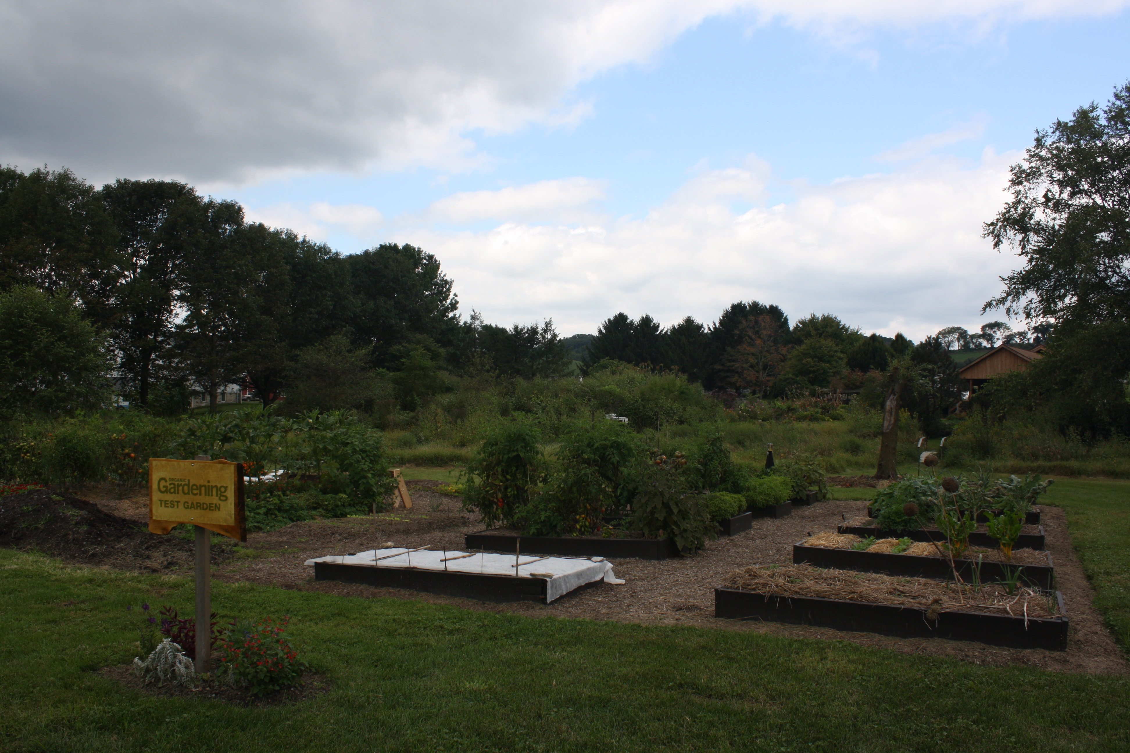 Test Garden (Organic Gardening) at Rodale Institute (Siegfried's Dale Farm), Maxatawny Township, Berks County, Pennsylvania.